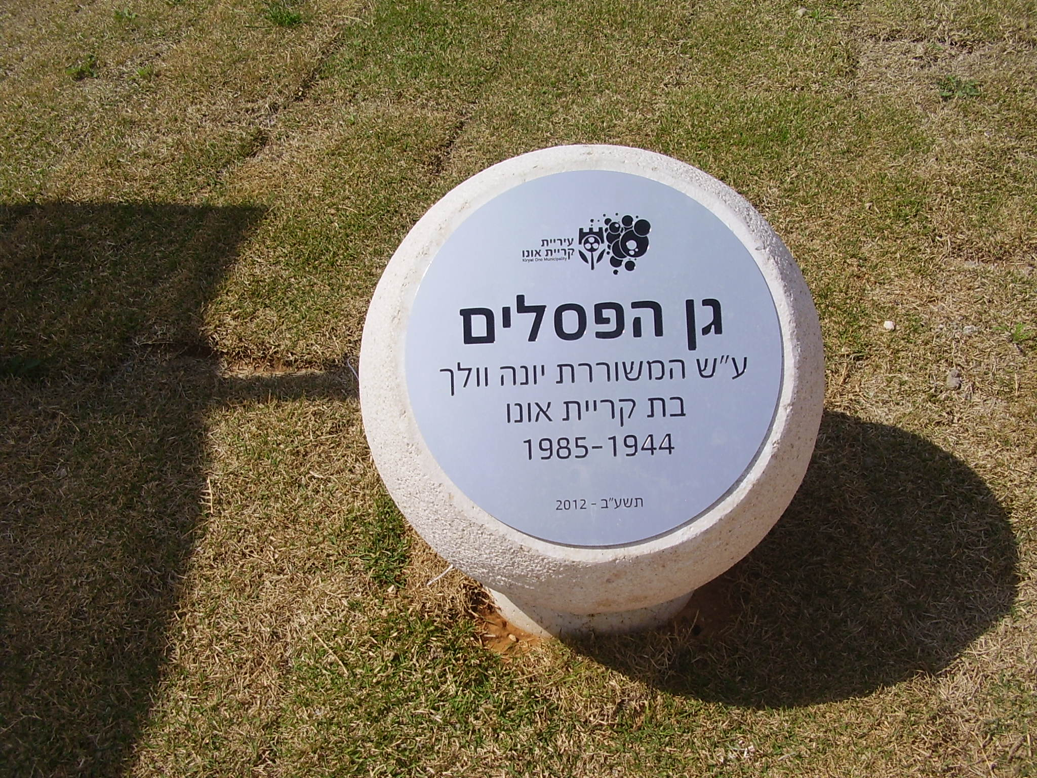 yona wallach sculpture garden in kiryat ono